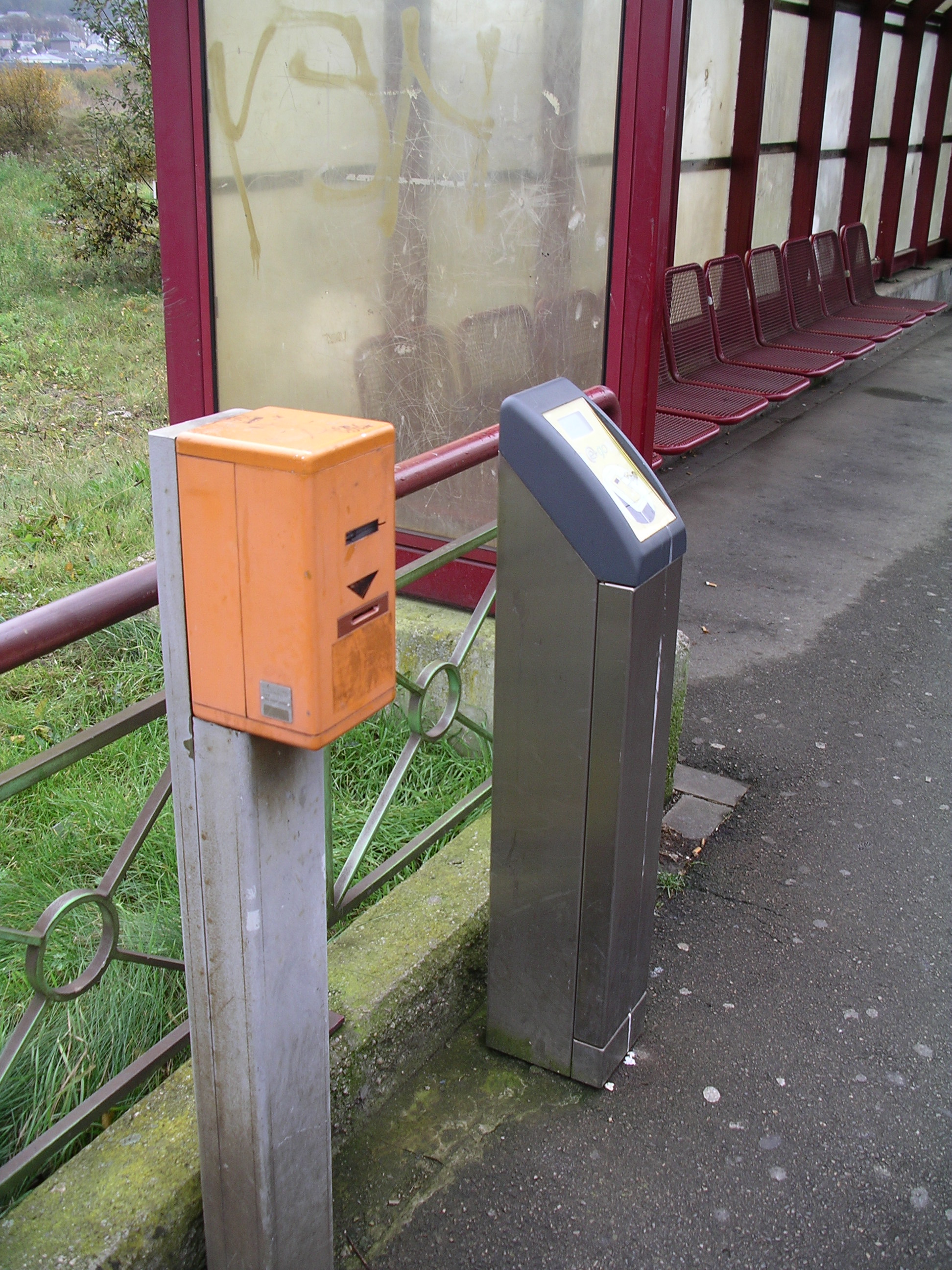 e-go Ticketsystem Luxembourg, Differdange station, conventional ticket marker and e-go column